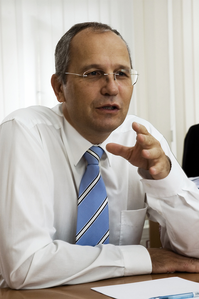 An interview with the ex-major of Maribor, Slovenia.